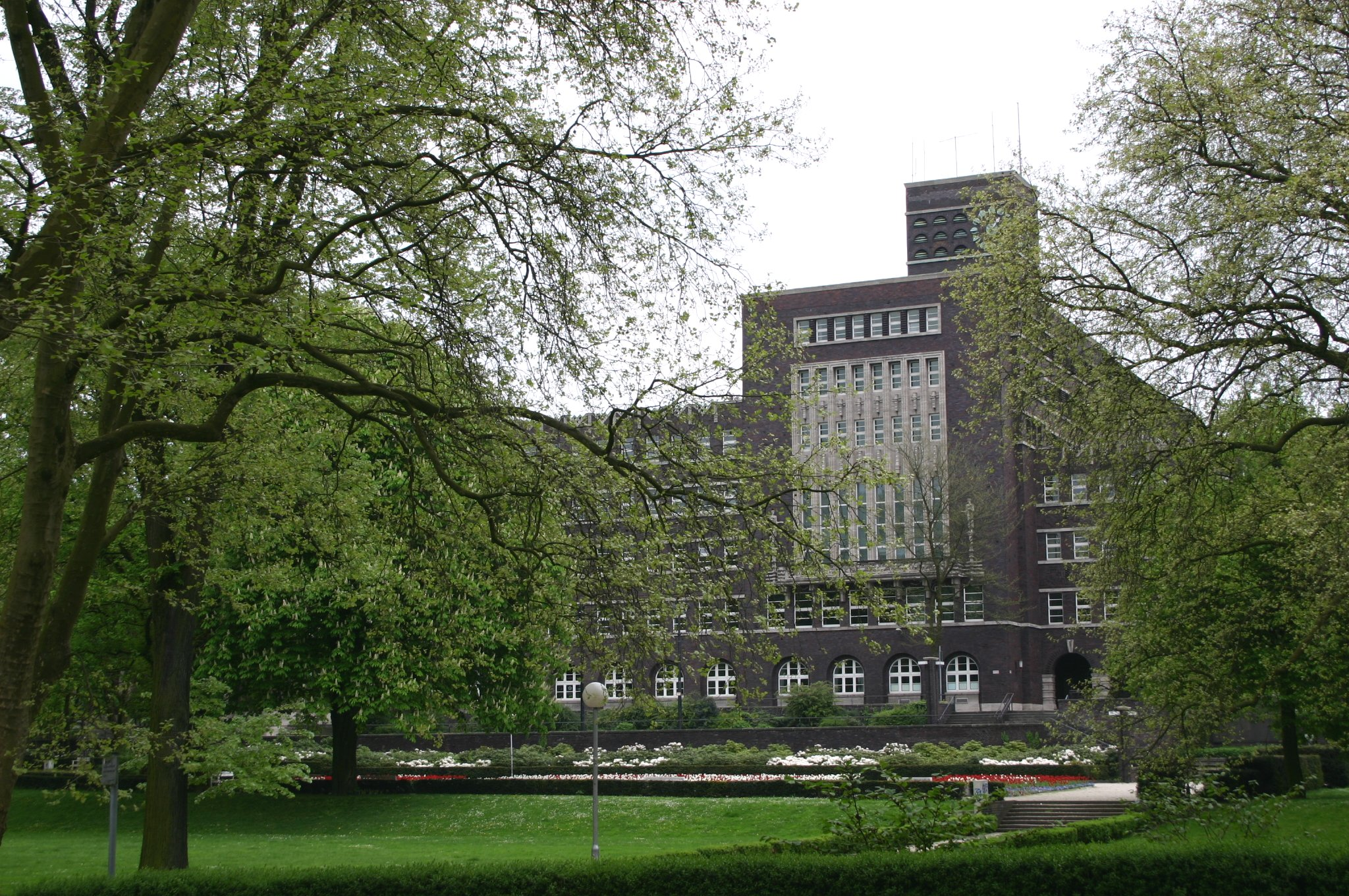 Townhall of Oberhausen (Germany)